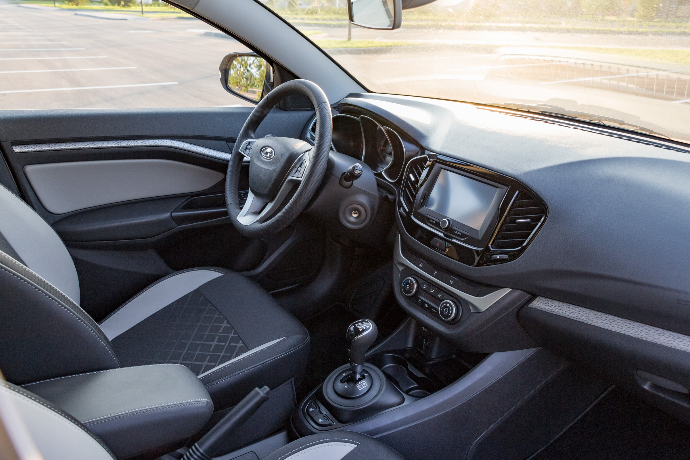 Interior of the Lada Vesta SW Cross with automated manual transmission (AMT)